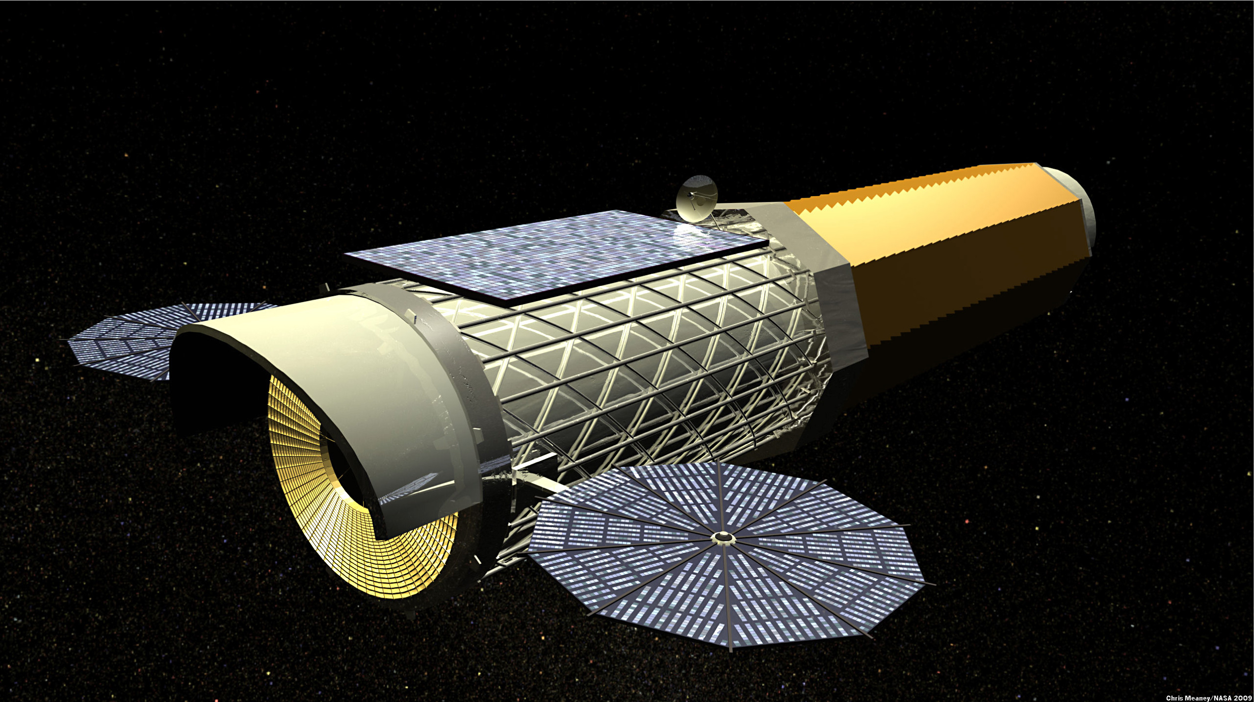 International X-ray Observatory side view, artist's impression.